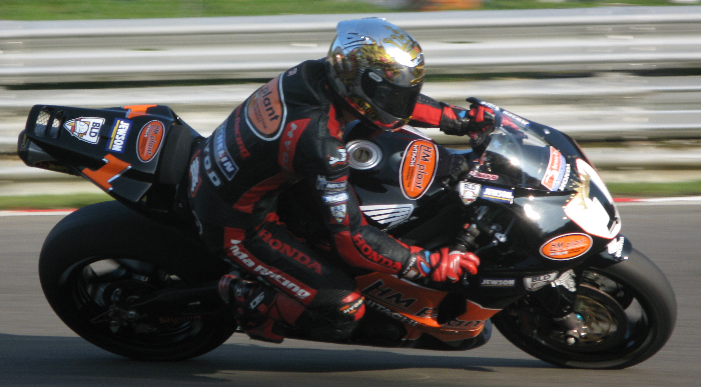 Ryuichi Kiyonari in the last race of the 2007 BSB season